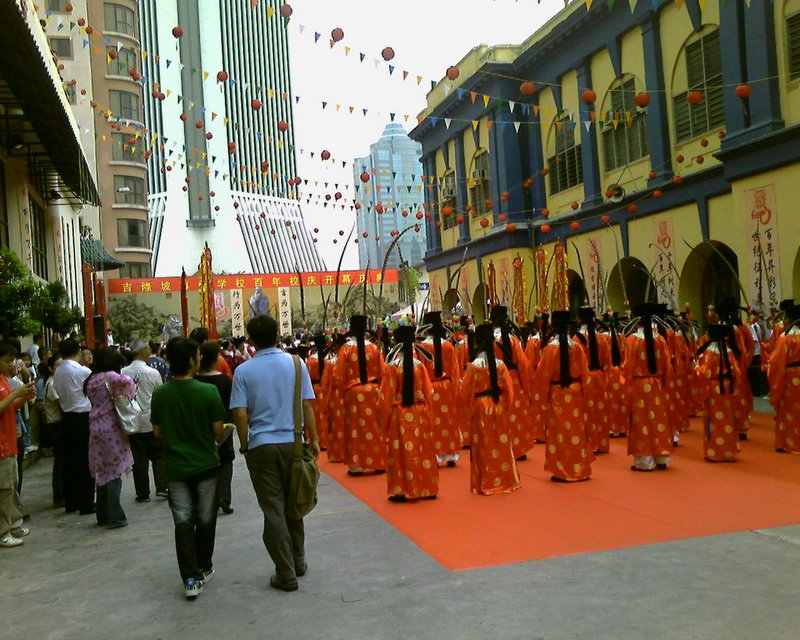 SMJK Confucian, 100-year anniversary.